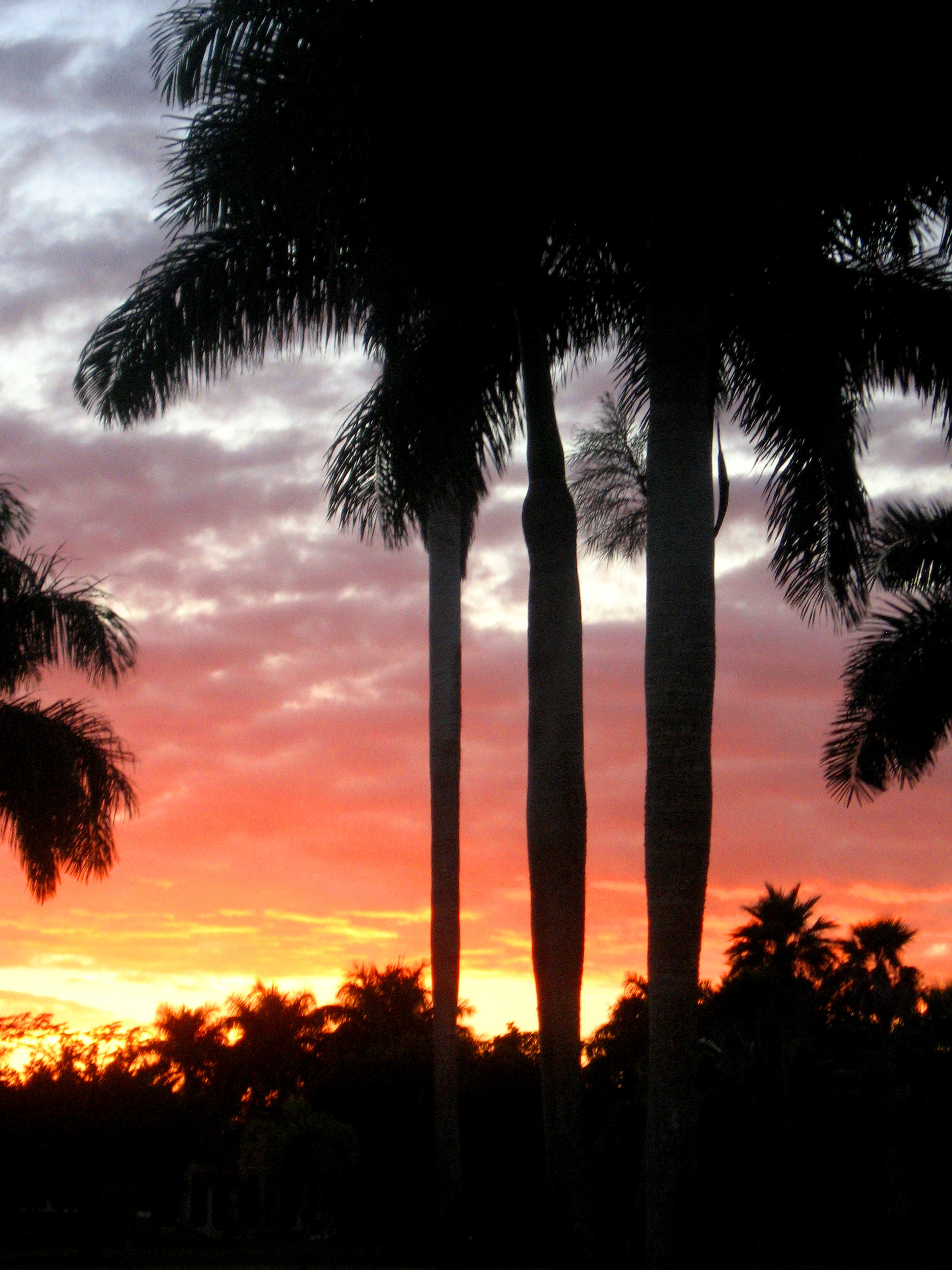 A view of the palm trees in Weston, FL.